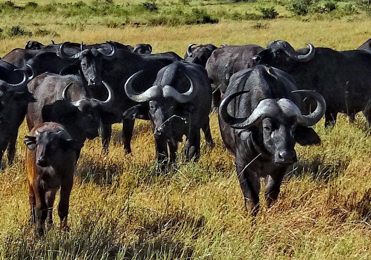 Derived from:File:Syncerus-caffer-Masaai-Mara-Kenya.JPG